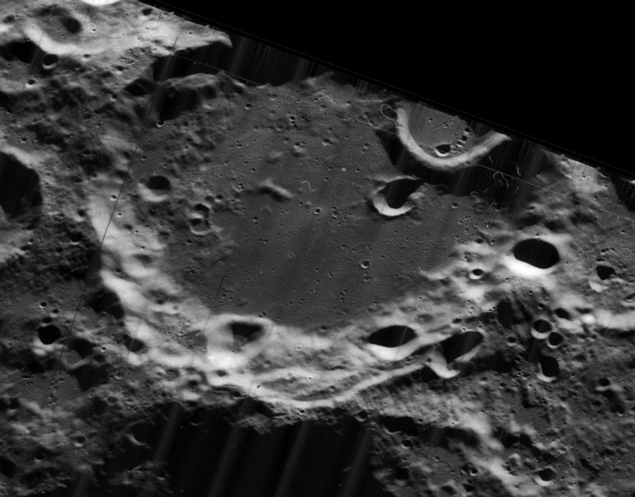 Oblique view of Wegener, on the far side of the moon, facing west. Edge of original photo is in upper right.